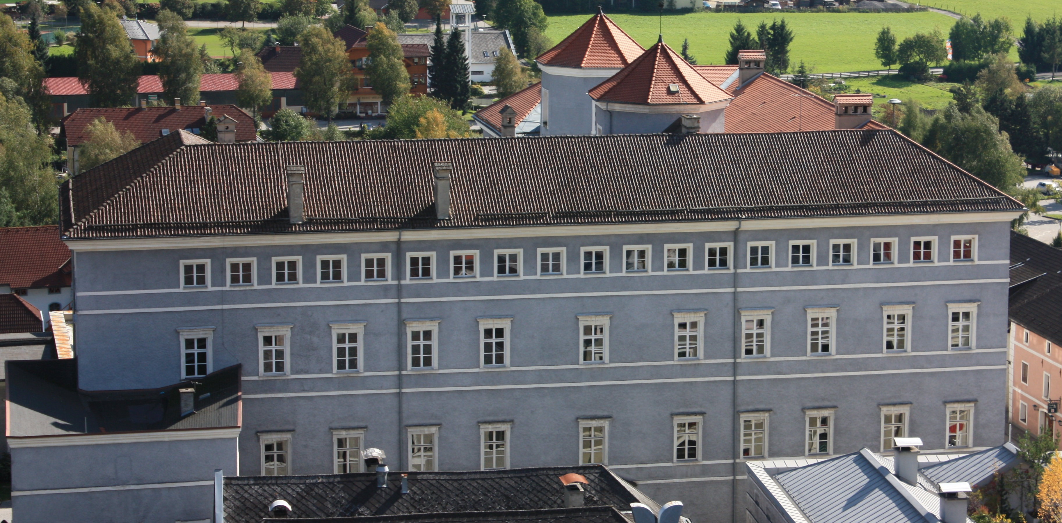 Lodron Castle Locality:Hauptplatz Community:Gmünd